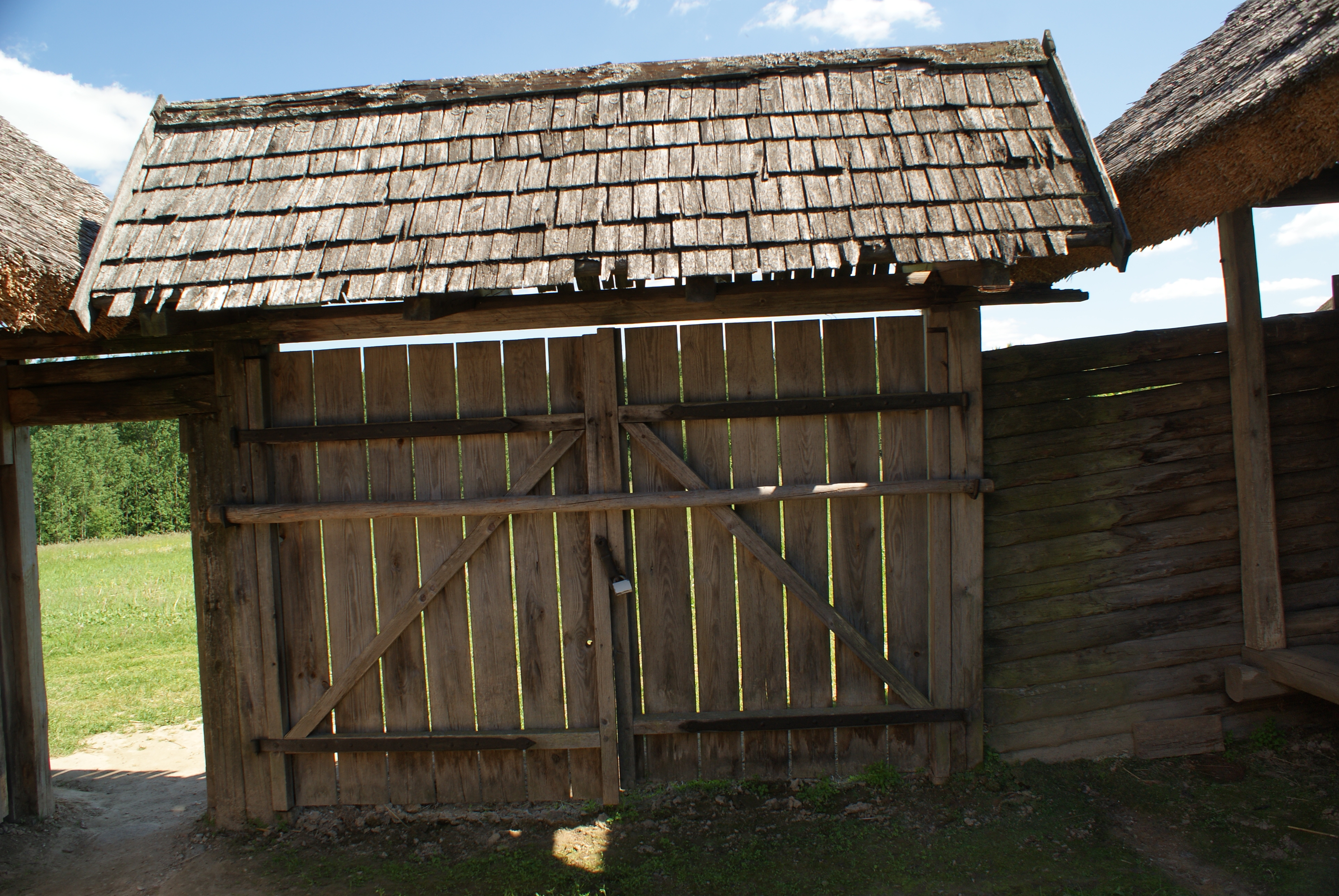 Gates in State museum of folk architecture and life, Belarus